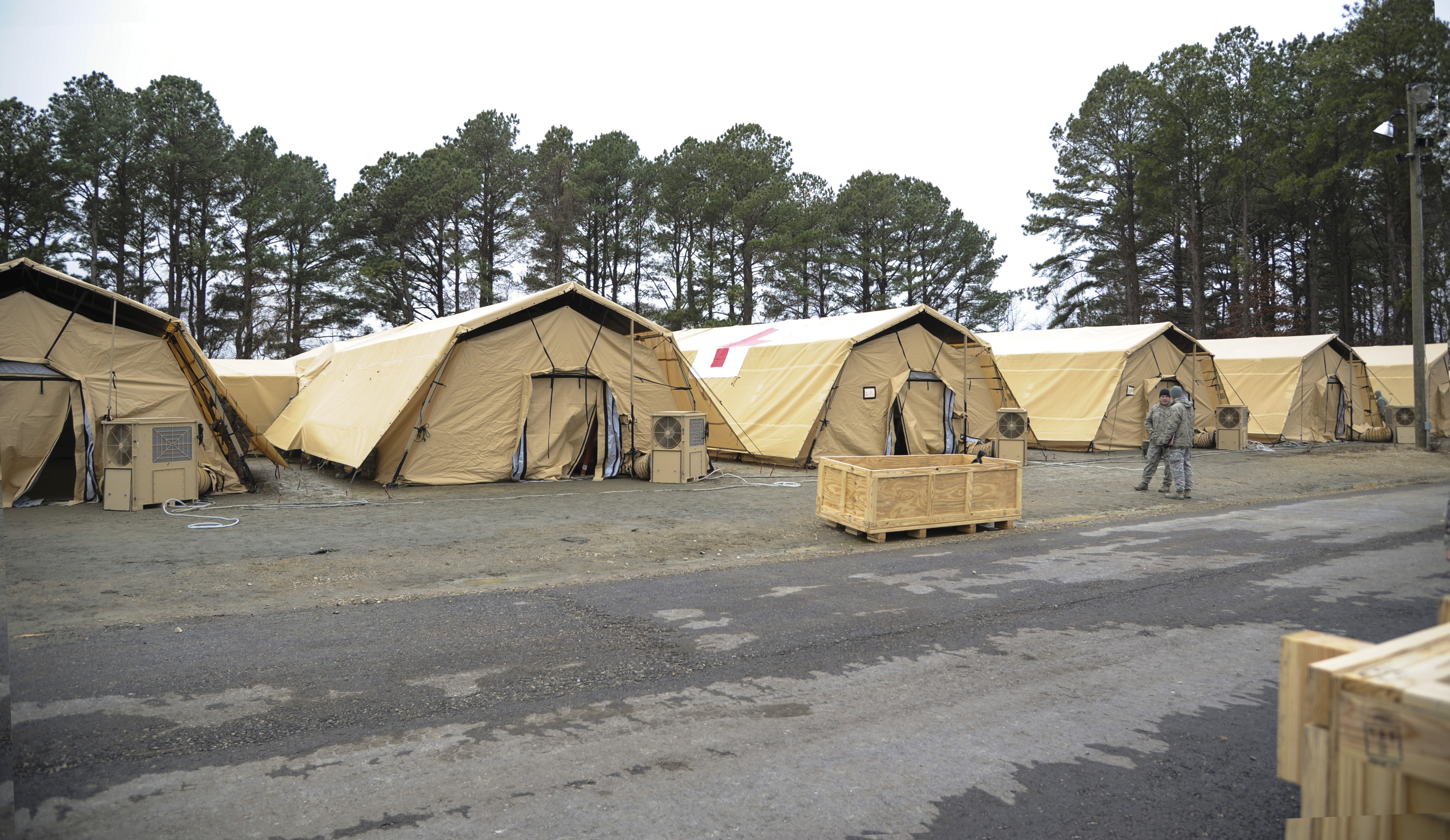 A new tent structure for the Expeditionary Medical Support System being tested by the U.S. armed forces at Langley AFB Original source article at